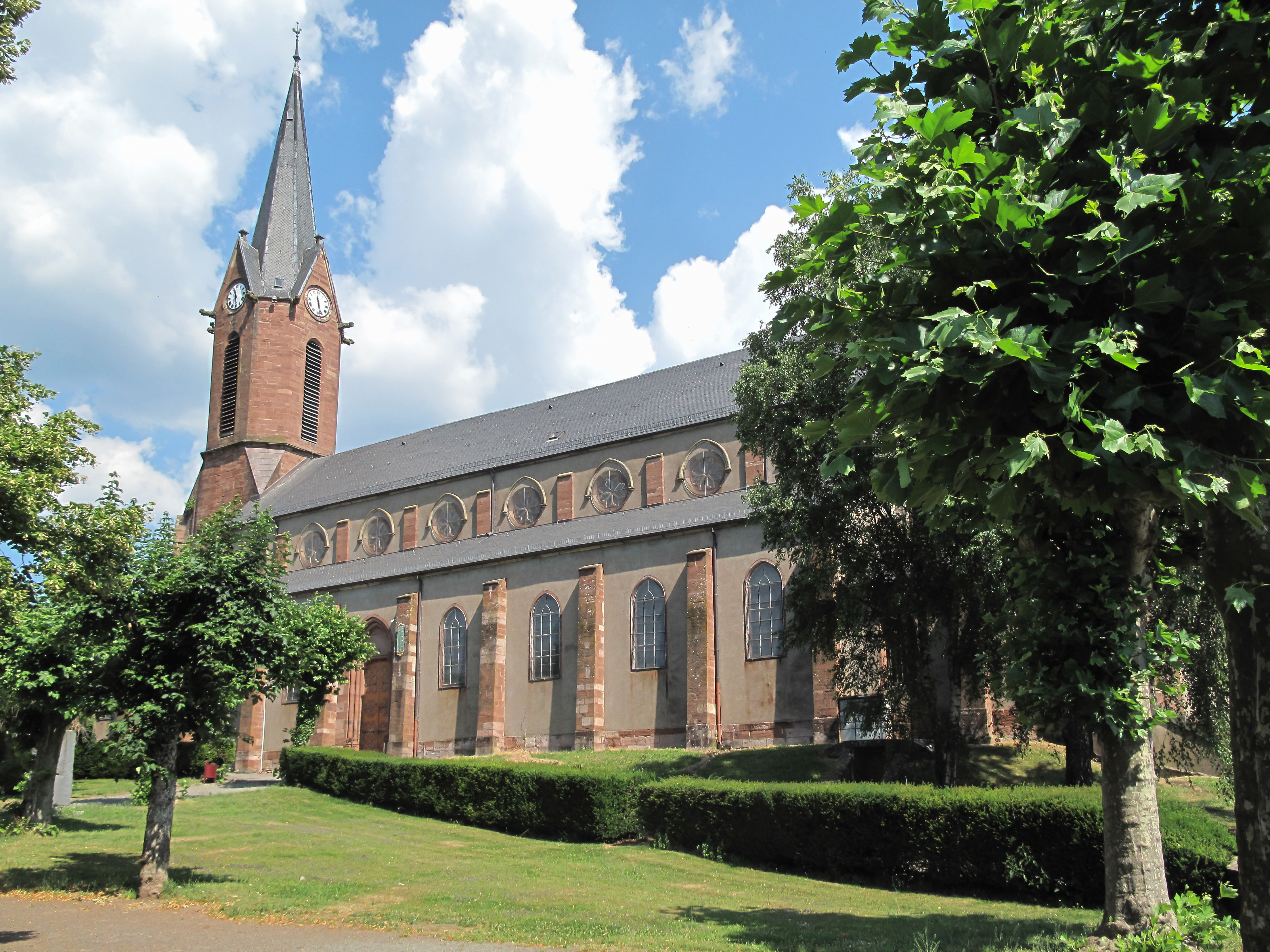 Giromagny, church: église Saint-Jean-Baptiste